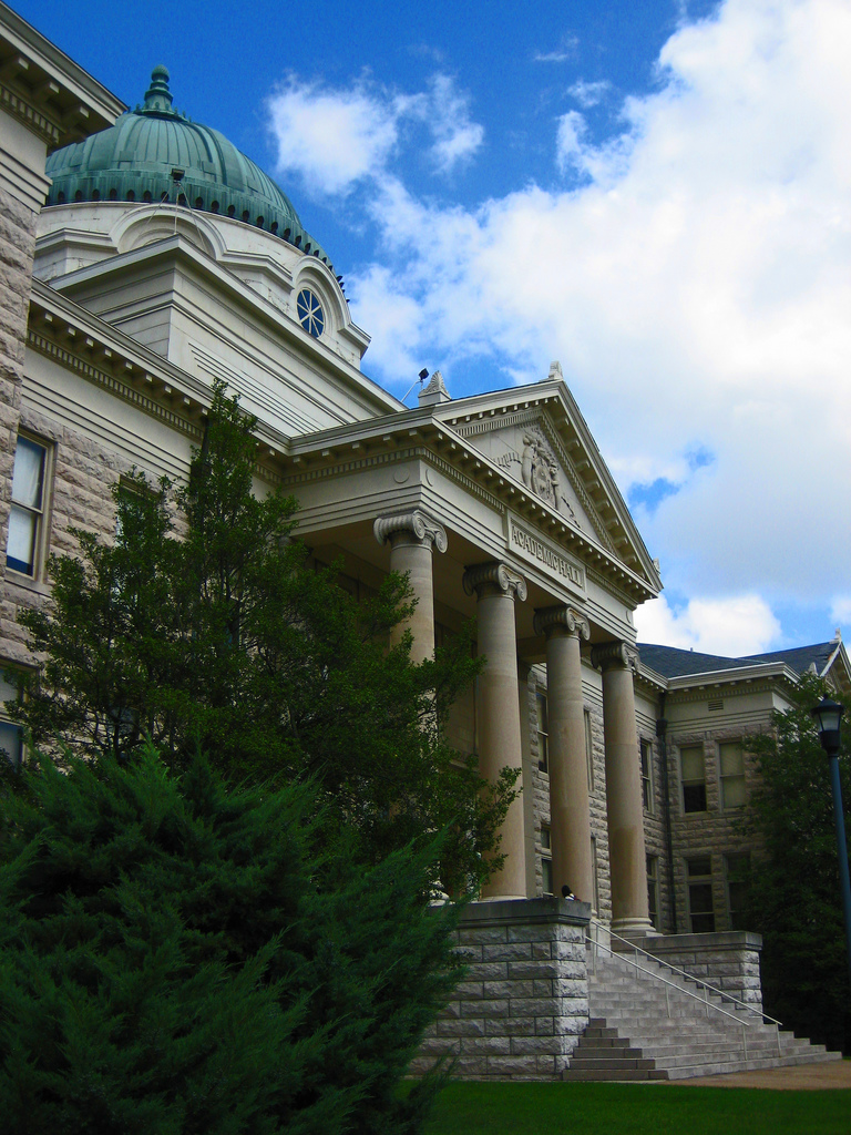 Academic Hall, oldest existing building on the campus of Southeast Missouri State University in Cape Girardeau, MO